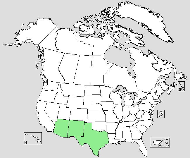 Distribution map of Opuntia macrocentra (purple prickly pear cactus) — in the lower Southwestern United States.